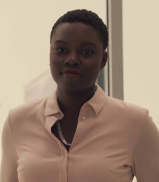 American actress Shaunette Renée Wilson in a frame from the Showtime cable TV series Billions